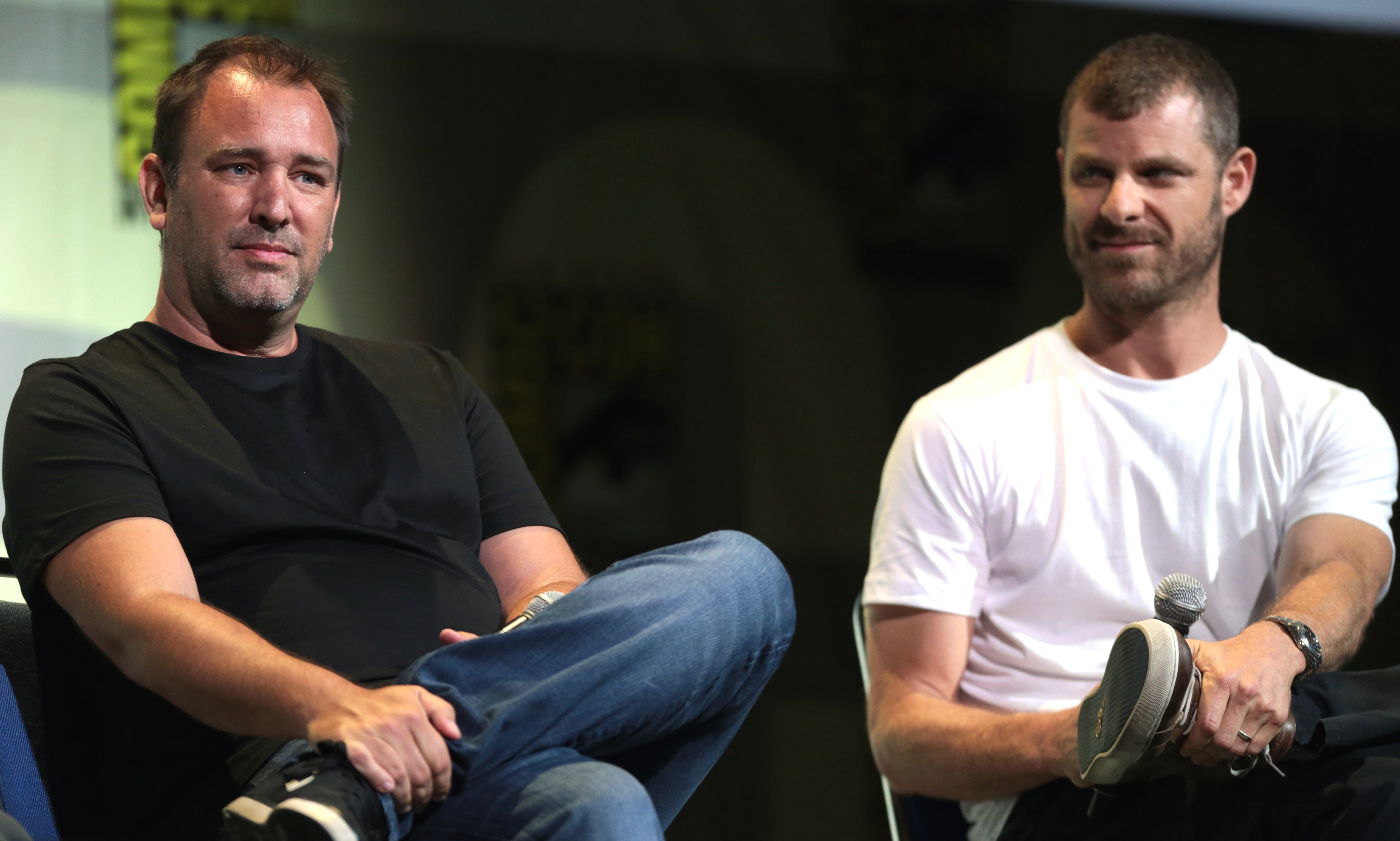 Trey Parker and Matt Stone speaking at the 2016 San Diego Comic-Con International in San Diego, California.